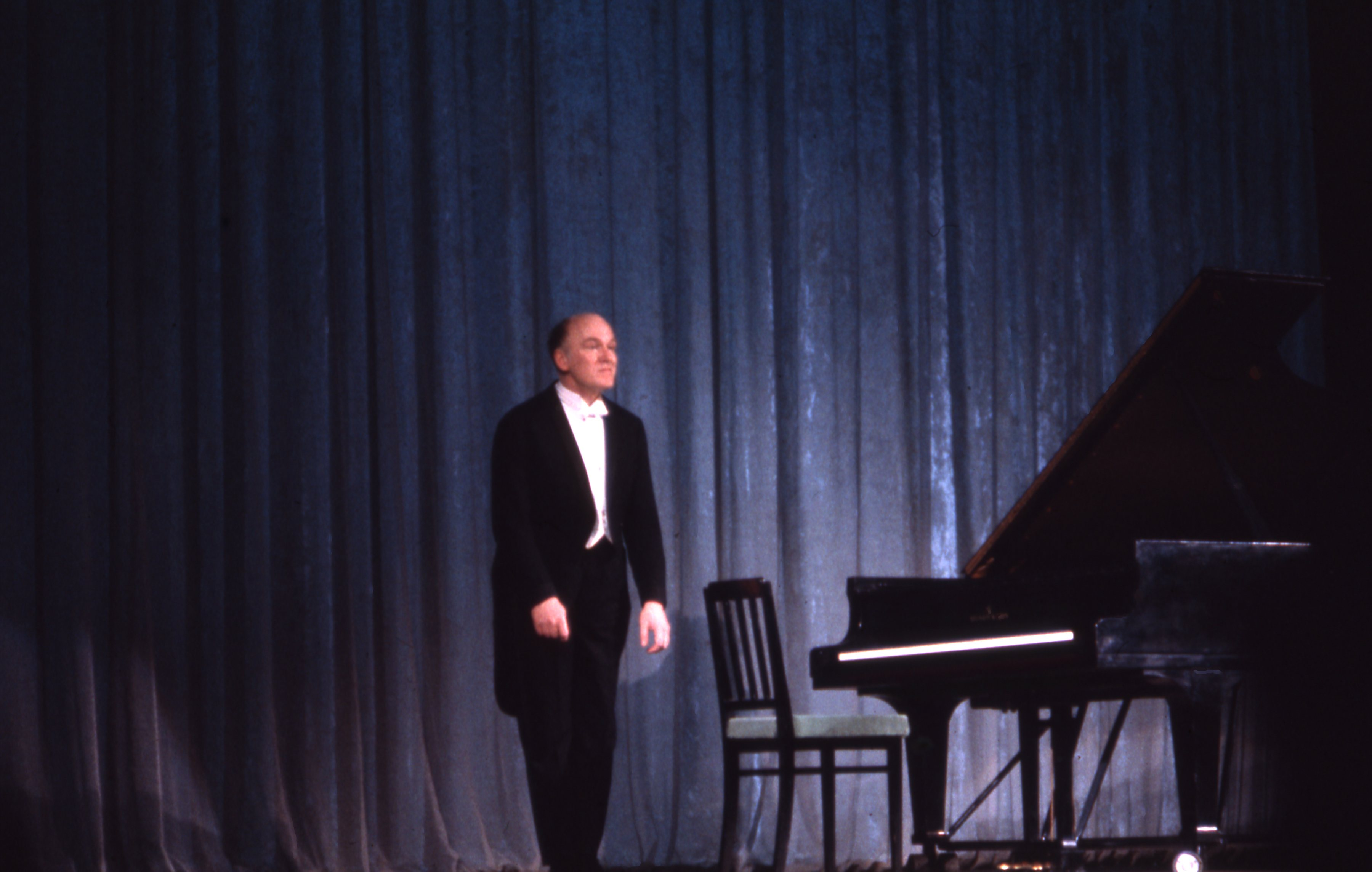 These images were taken by Thomas T. Hammond during his trip to the Soviet Union. This specific image features Sviatoslav Richter.